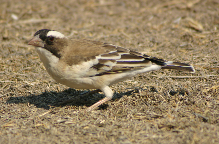 A juvenile White-browed Sparrow-Weaver at Etosha National Park, Namibia.